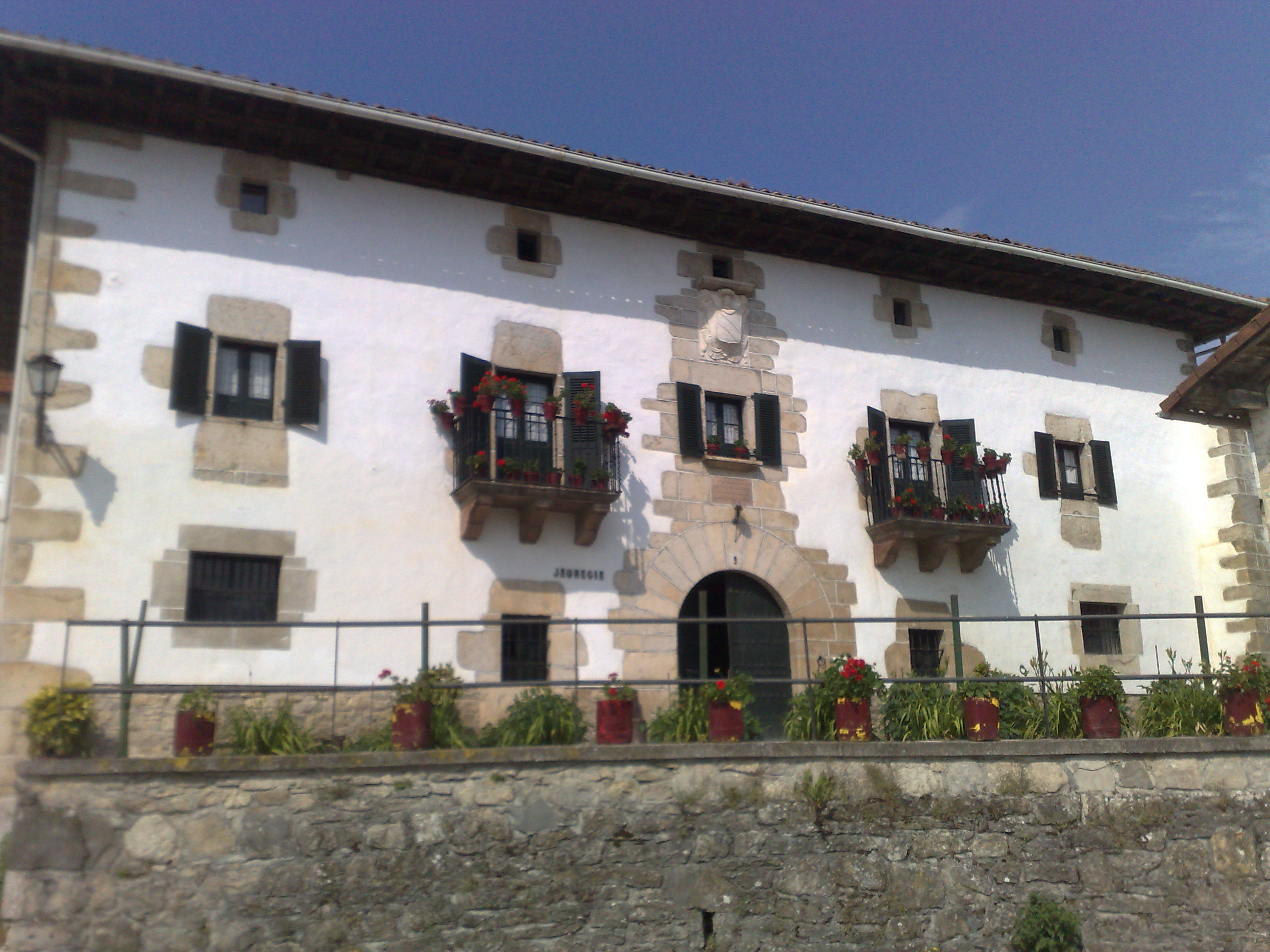 Jauregia (Palace, 1816) house, Ziaurritz, Odieta, Navarre, Basque Country.